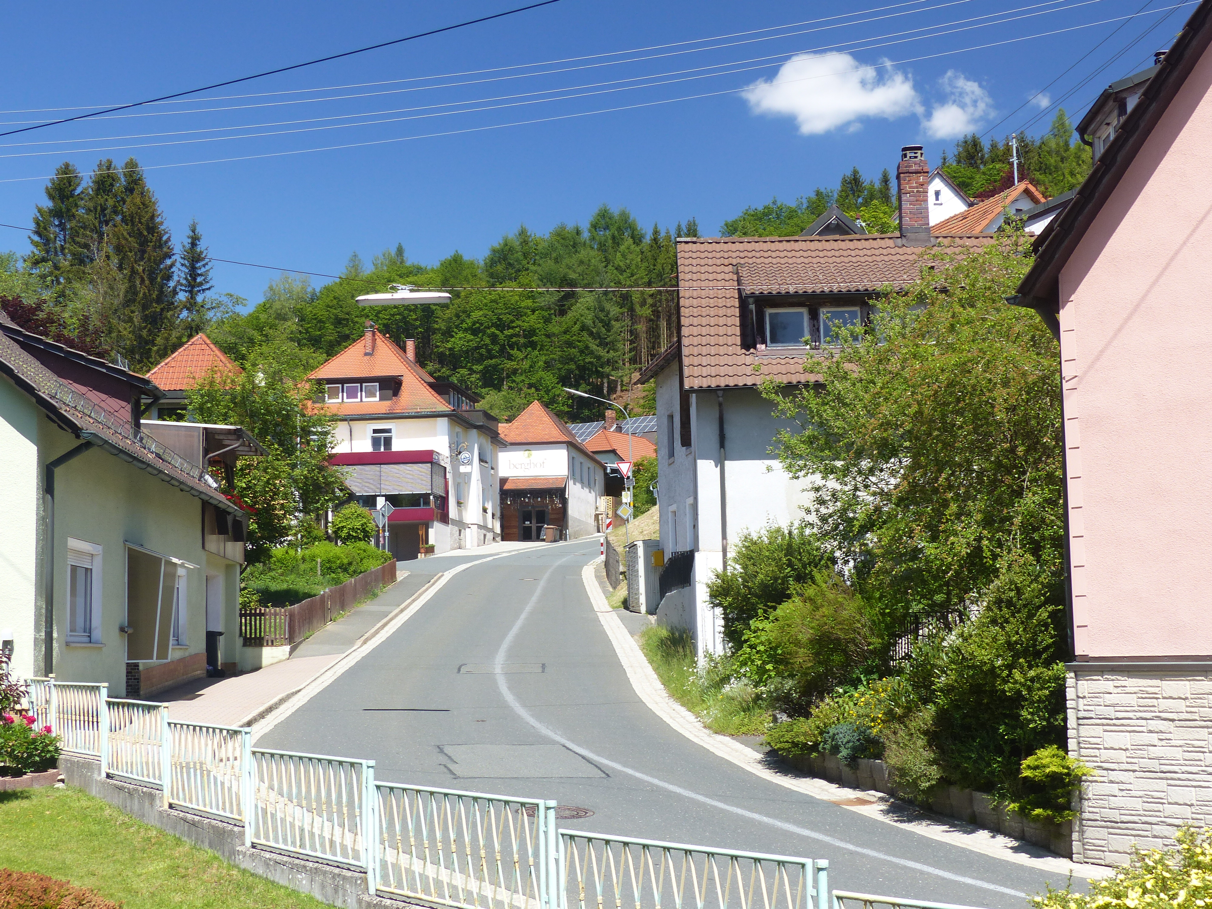 The district road KU 24 passing through the village of Wartenfels, a district of the municipality of Presseck.